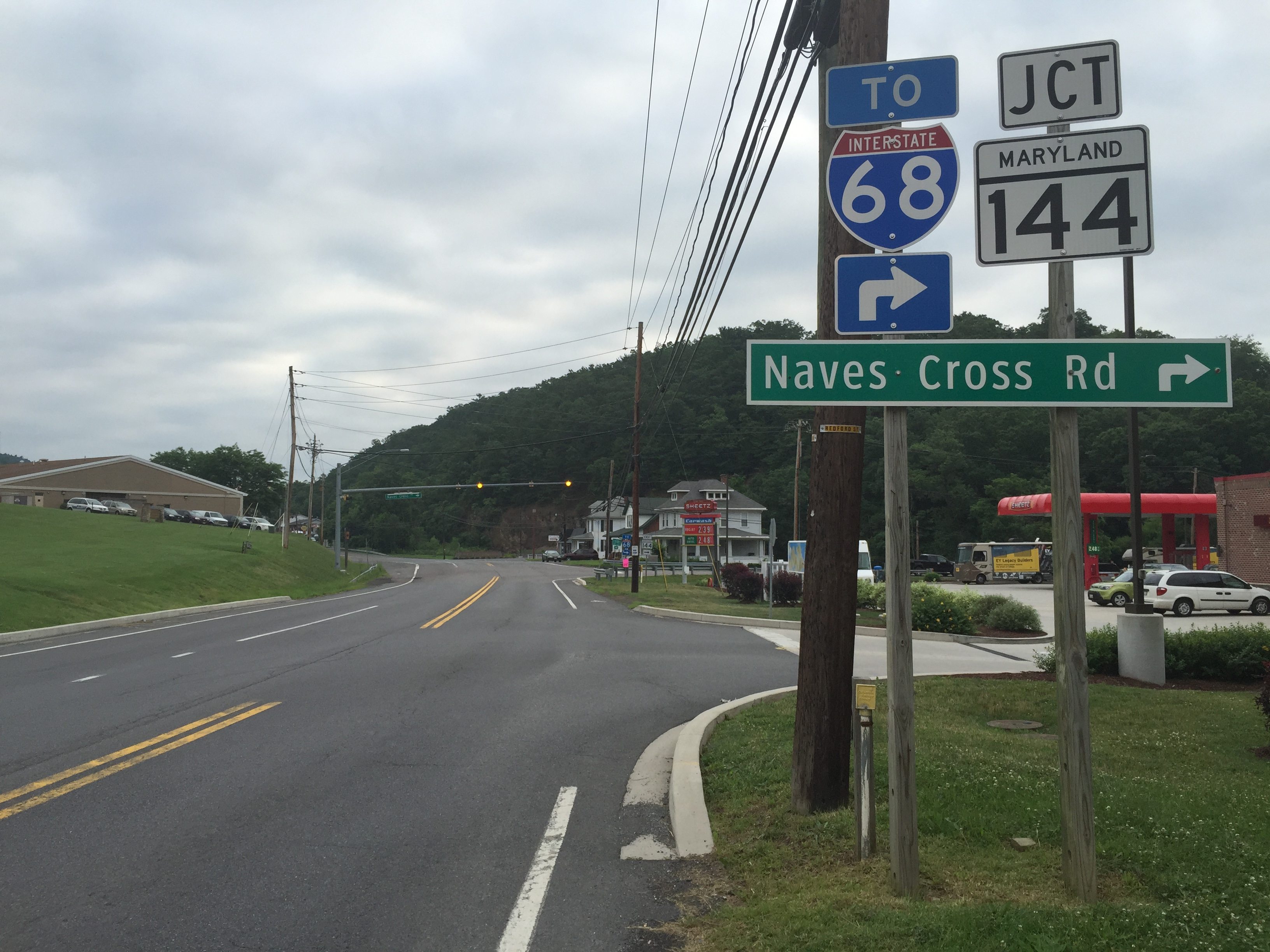 View north along Maryland State Route 807 (Bedford Road) just south of the junction with Maryland State Route 144 (Naves Cross Road) in Cumberland, Allegany County, Maryland